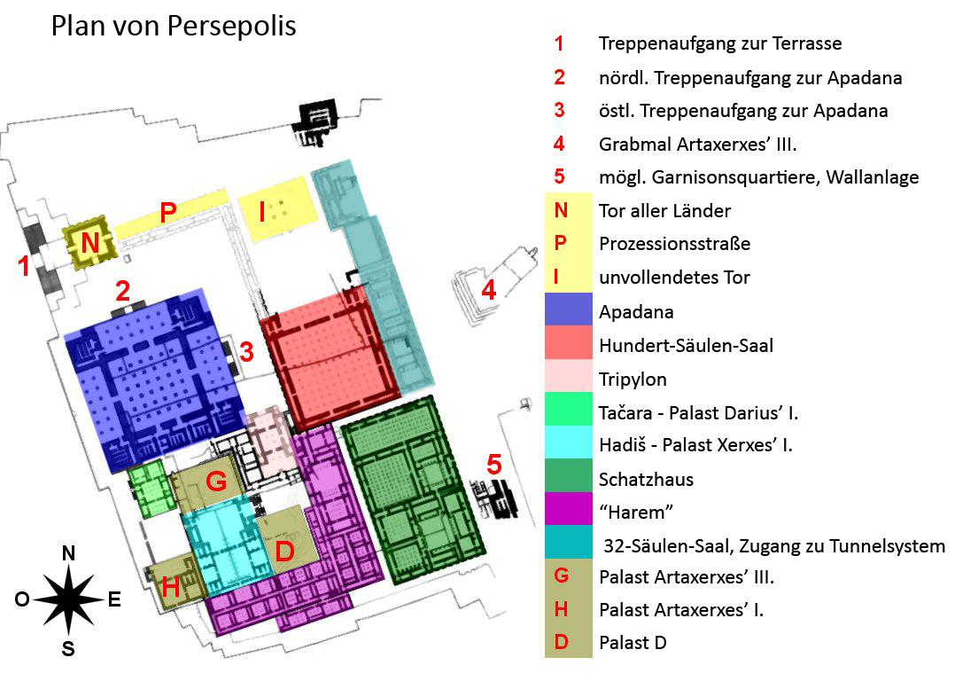 Map of Persepolis royal palaces complex. Made by Pentocelo as synthesis of original shemes and datas issued from several works by Ertzfeld, Dutz, Lendering, and Stierlin